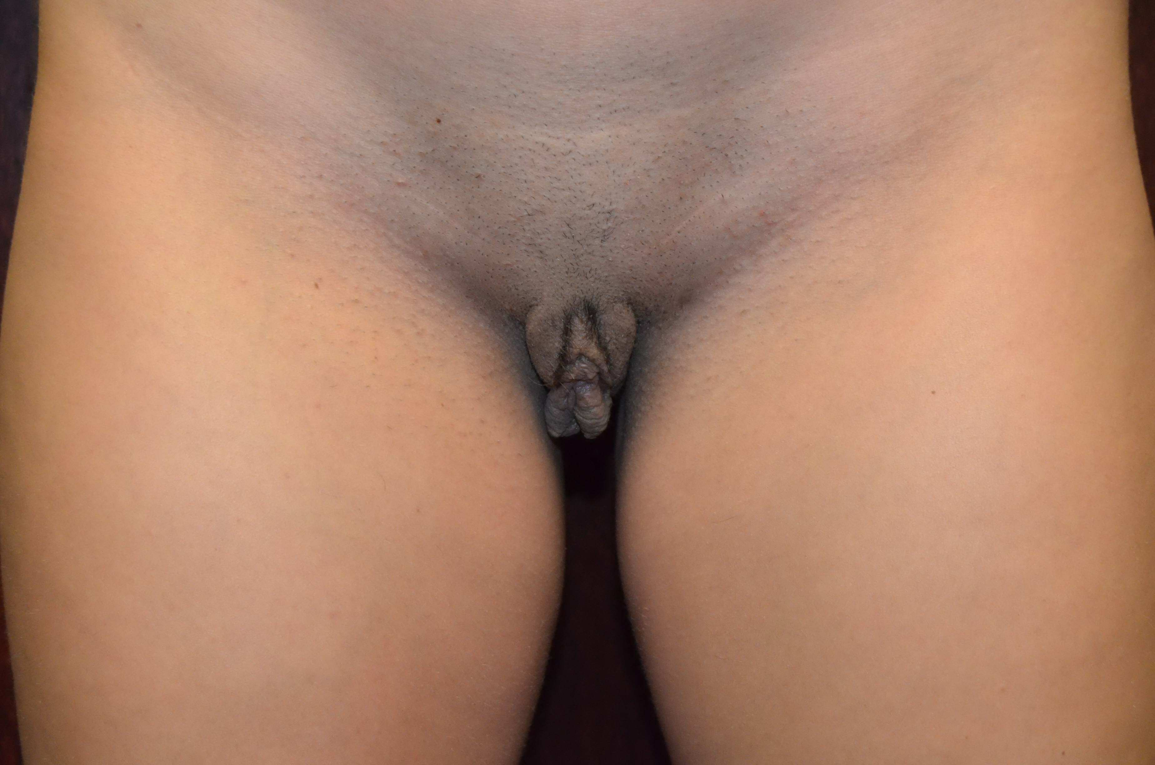 Enlarged labia minora can be seen extending beyond the labia majora, which is an undesirable appearance for most women. She also complained of chafing, irritation, and difficulty wearing certain clothing. Intimacy was also uncomfortable for this woman, because of self-consciousness with her appearance.